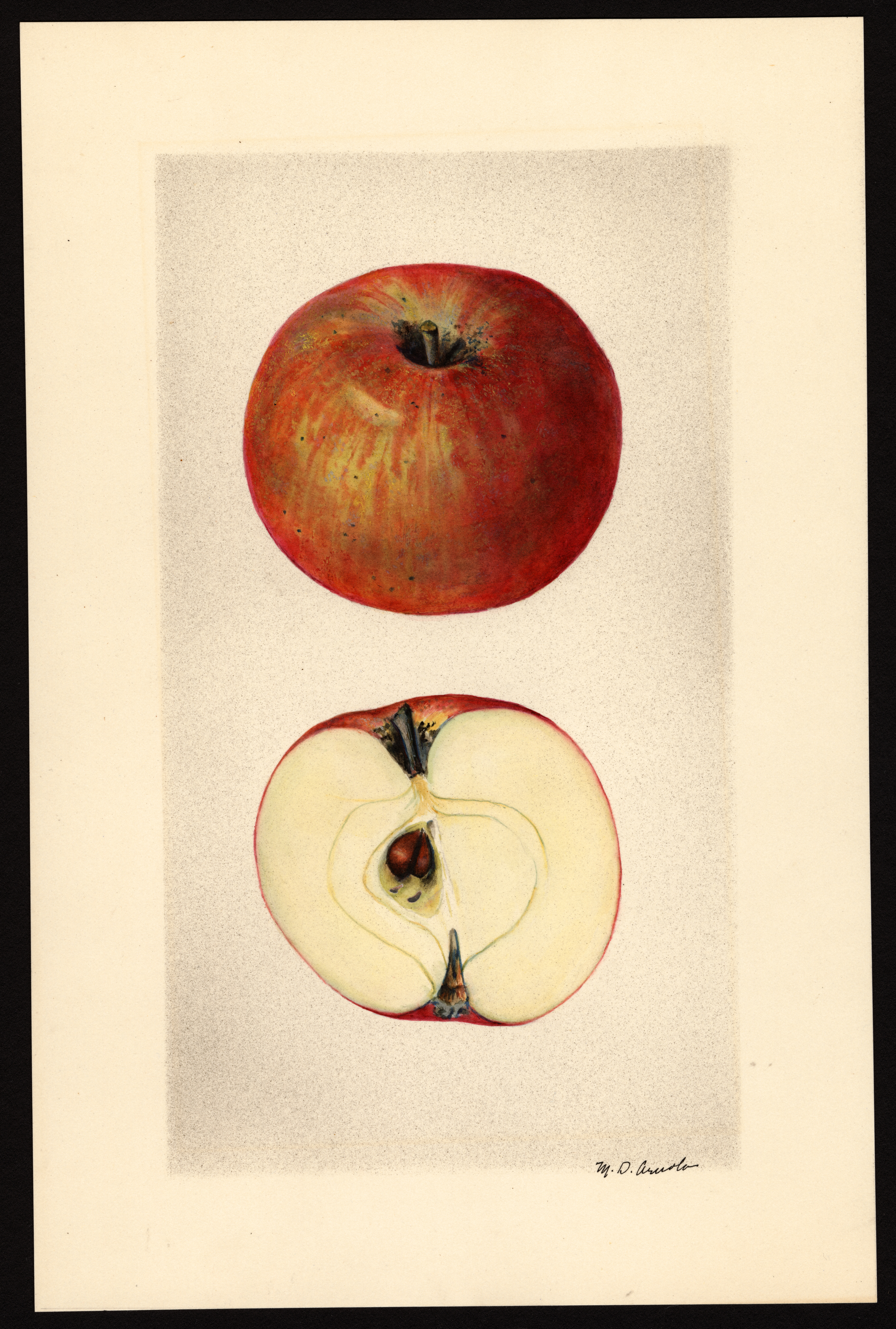 Image of the Ameri du Surville variety of apples (scientific name: Malus domestica), with this specimen originating in Rosslyn, Arlington County, Virginia, United States. Source: U.S. Department of Agriculture Pomological Watercolor Collection. Rare and Special Collections, National Agricultural Library, Beltsville, MD 20705.